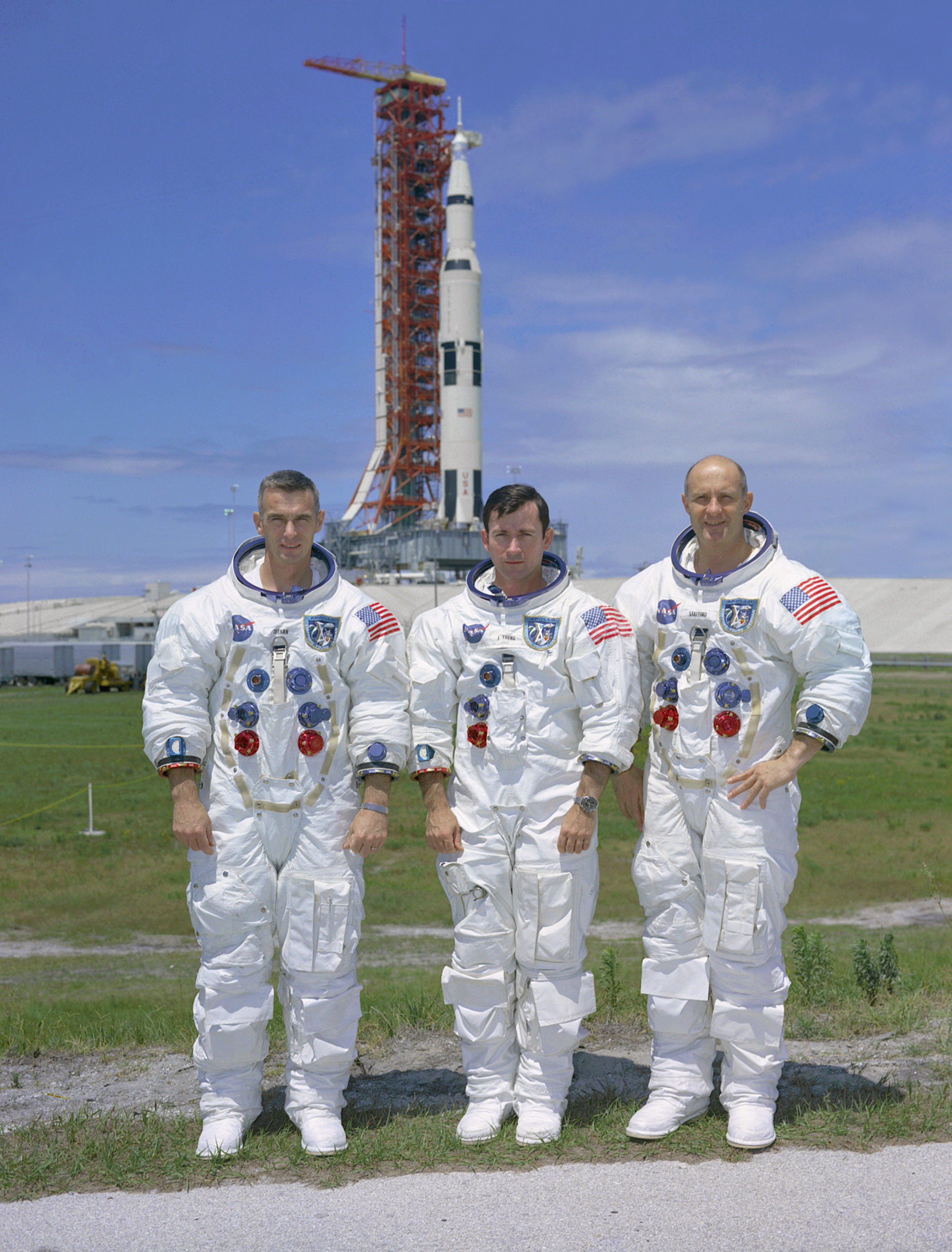 The prime crew of the Apollo 10 lunar orbit mission is photographed while at the Kennedy Space Center for pre-flight training. Left to right are astronauts Eugene A. Cernan, Lunar Module pilot; John W. Young, Command Module pilot; and Thomas P. Stafford, Commander.